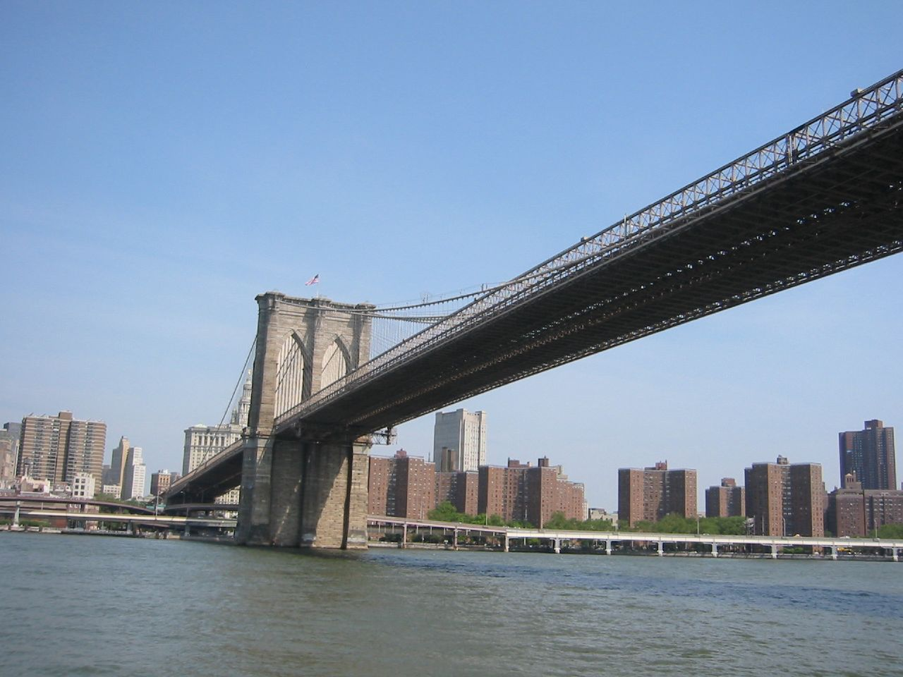 Usable with attribution and link to